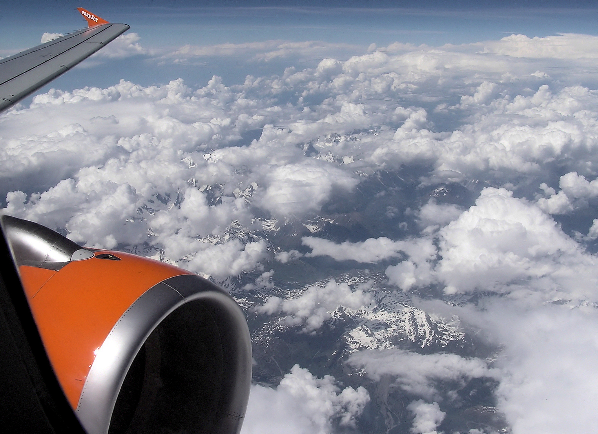 The European Alps, from an easyJet Airbus A319-100 (G-EZBV) flying at 35000 feet between Bristol and Rome. I don't know which country we were over (France, Switzerland or Italy).